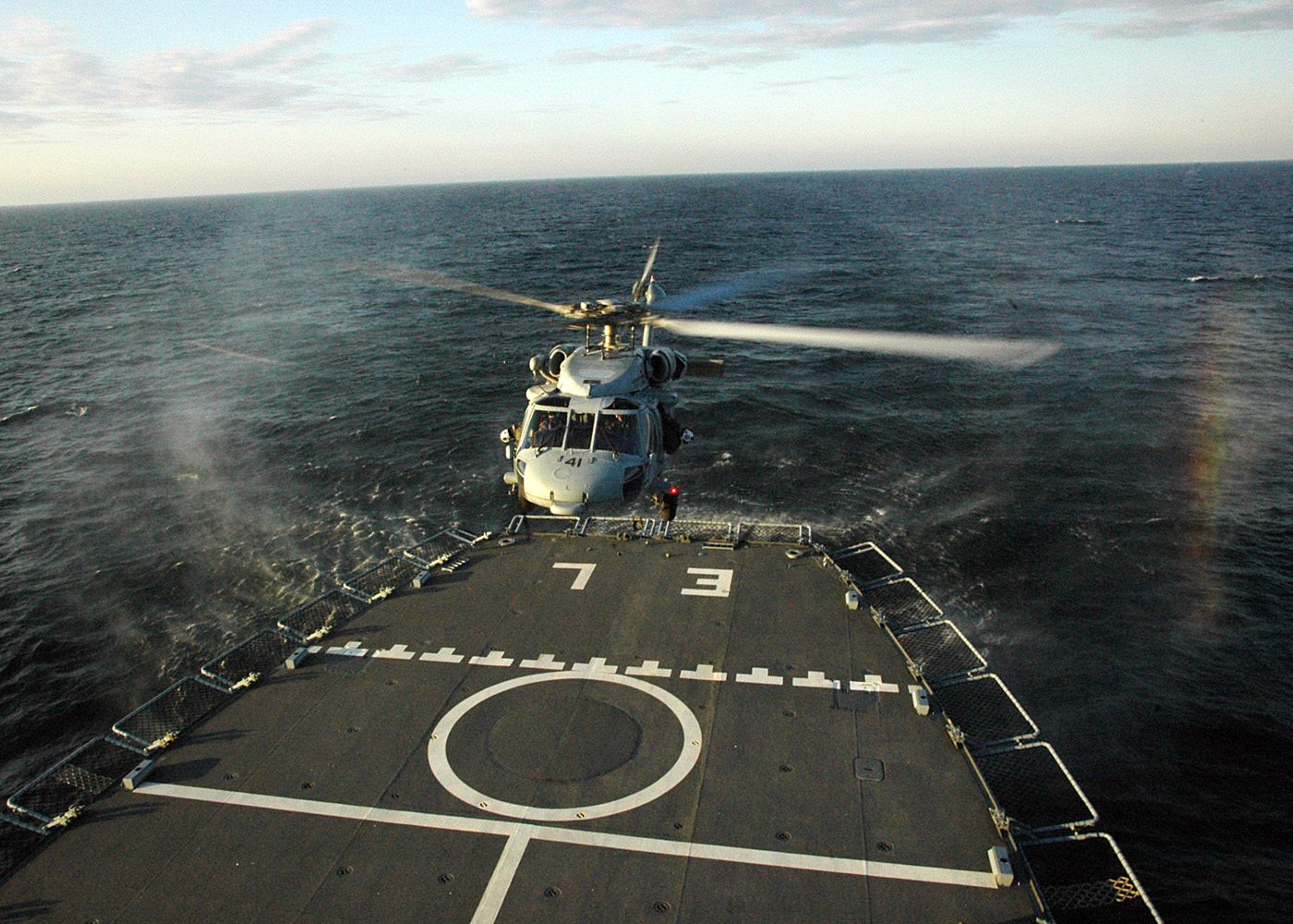 A MH-60S Sea Hawk helicopter assigned to the "Dragon Whales" of Helicopter Sea Combat Squadron HSC-28 lands on the flight deck of the German Navy tender Elbe (A 511) during exercise Baltic Operations (BALTOPS), on 10 June 2009. This is the 37th iteration of BALTOPS and is intended to improve interoperability with partner nations by conducting realistic training at sea with the 12 participating nations. (The original text erroneously identifies the German vessel as fast attack craft Nerz (P 6124) but this ship has no flight deck and is much too small for a helicopter to land on. The flight deck marking "EL" positively identifies the ship as Elbe.)